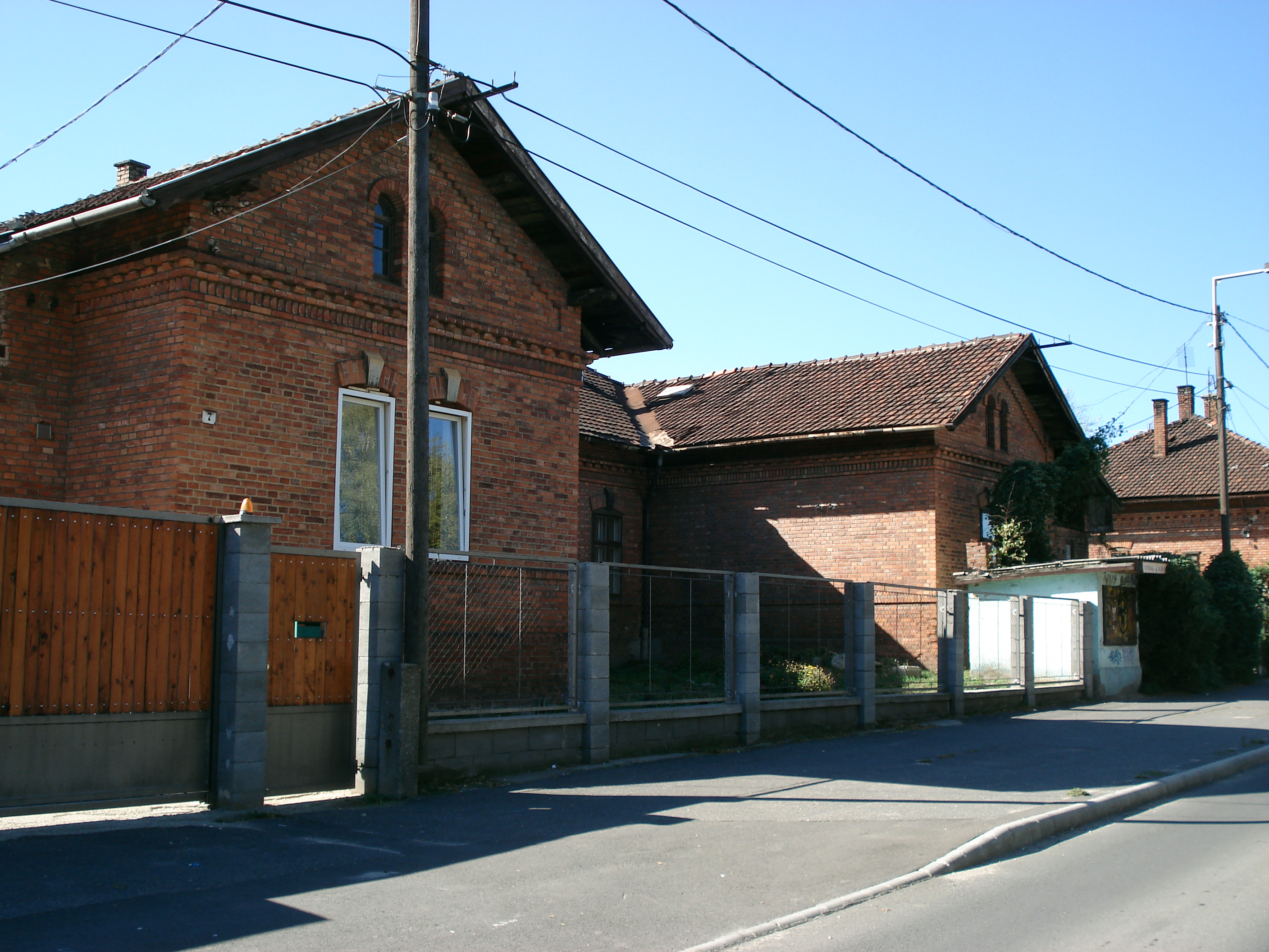 House for factory clerk, 7-9 Lónyay Menyhért street, Miskolc, Diósgyőr-Vasgyár, Hungary